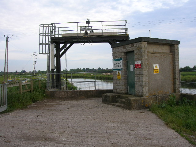 Monk's Leaze Clyce on the River Parrett. This sluice regulates the flow of water between the River Parrett and the Sowy River (the River Parrett Relief Channel), retaining water in the summer and controlling flooding in the winter.